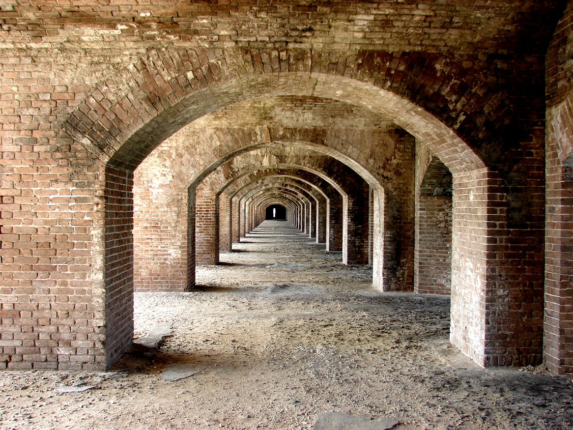 fort jefferson arches, dry tortugas national park, FL.